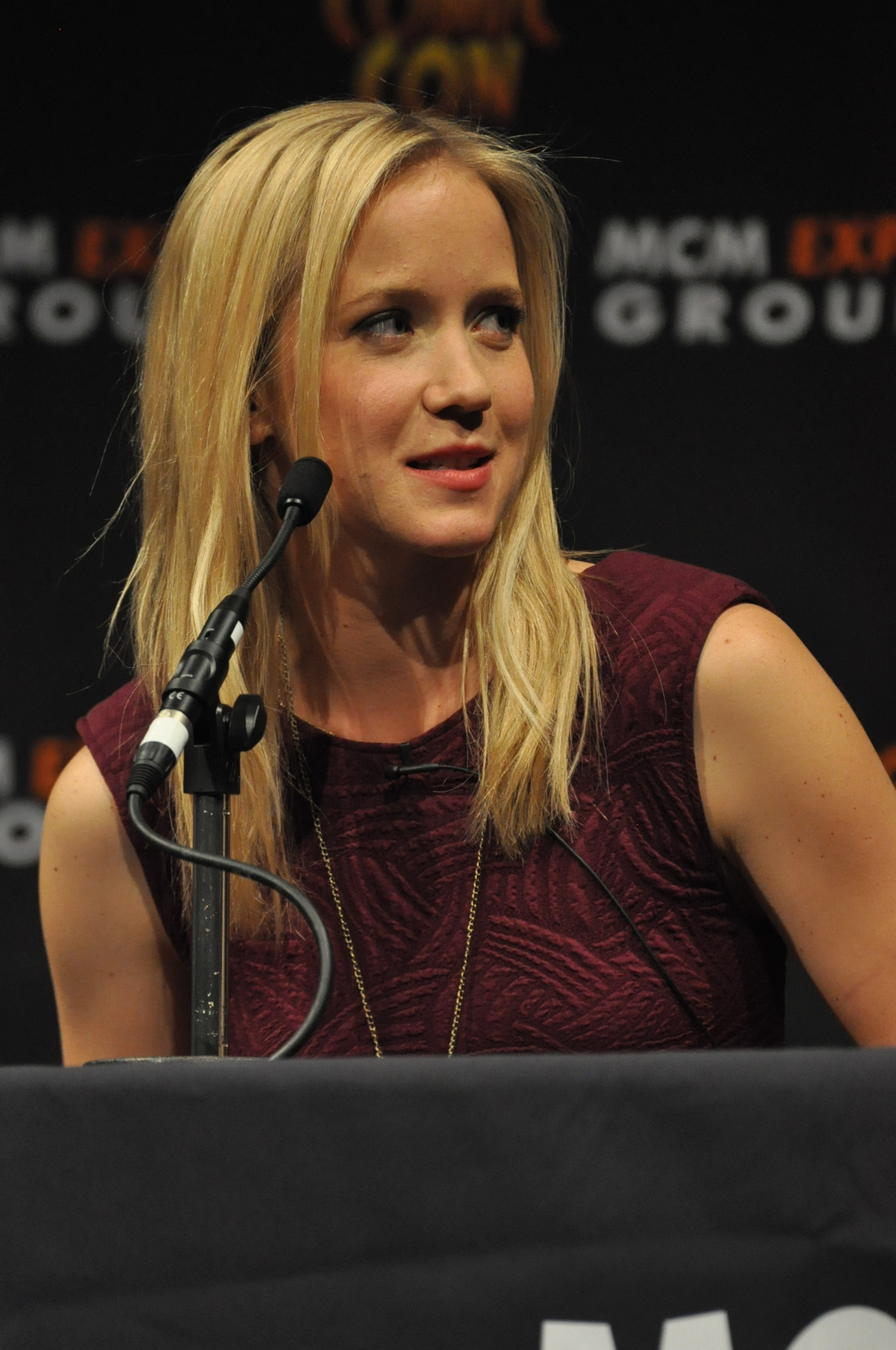 DSC_3142 MCM London Comic Con, Once Upon A Time Panel with Jane Espenson, Raphael Sbarge, Keegan Connor Tracy and Jessy Schram.